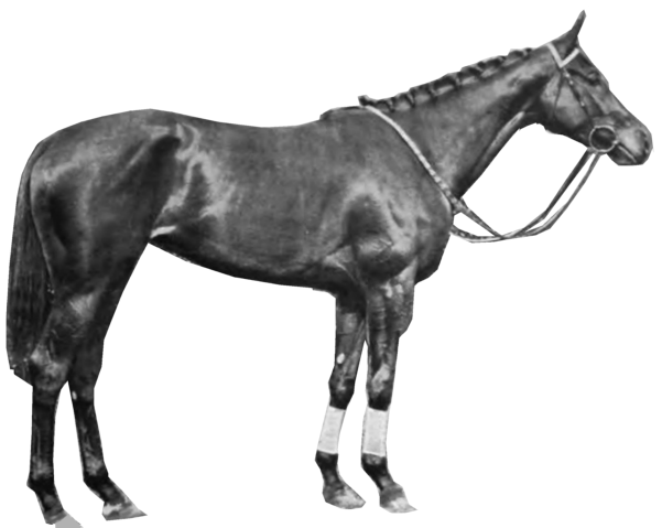 Vaucluse, winner of the 1915 1000 Guineas.